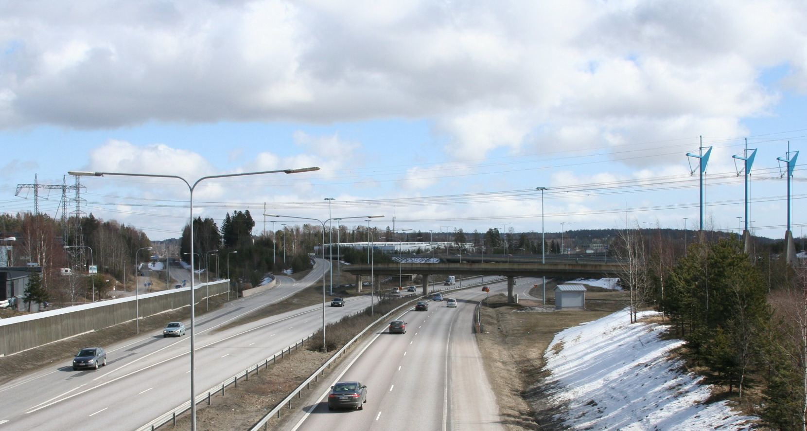 Finnish main grid overhead high voltage power transmission line crosses Motorway 1 near Ring III intersection in Espoo, Finland. High voltage poles from left to right: standard main grid pole (TT-shaped), beside it a standard area grid pole and far right 3 main grid landscape towers designed by Antti Nurmesniemi.